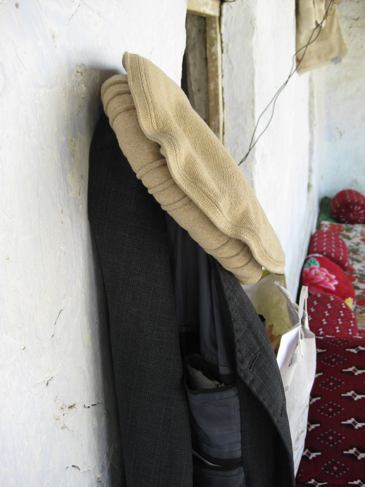 Sewing machines and clothing at the Fatima Zehra Girls School, which teaches 200+ girls. I was there providing technical advice to a rotary club installing a computer lab. Interestingly the school was partially blown apart during the bombing of Osama bin Laden's house, which was a couple miles away.